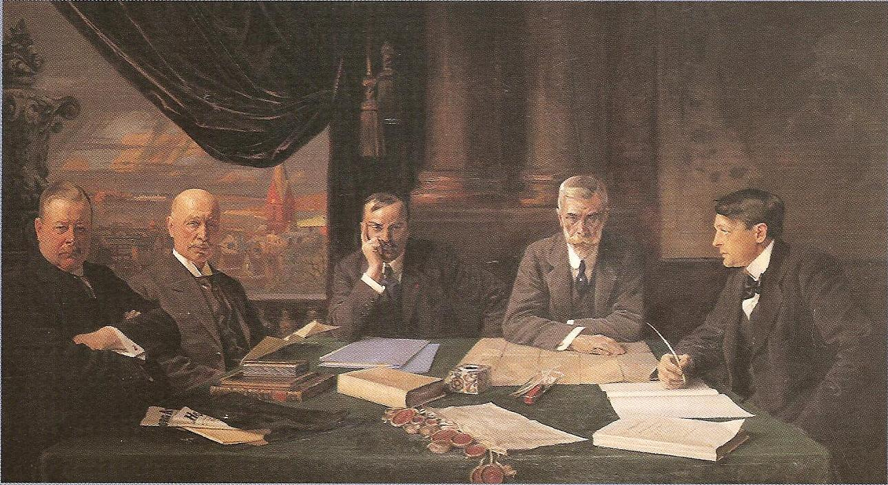 Painting by Harald Slott-Møller of the Commision Internationale Slesvig (CIS) 1919-1920. Painting made 1922. From left to right: Oscar von Sydow, Thomas Heftye, Paul Claudel, Sir Charles Marling, C. Brudenell-Bruce.